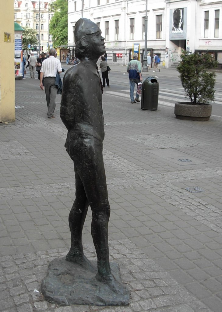 Wędrowiec monument in Bydgoszcz